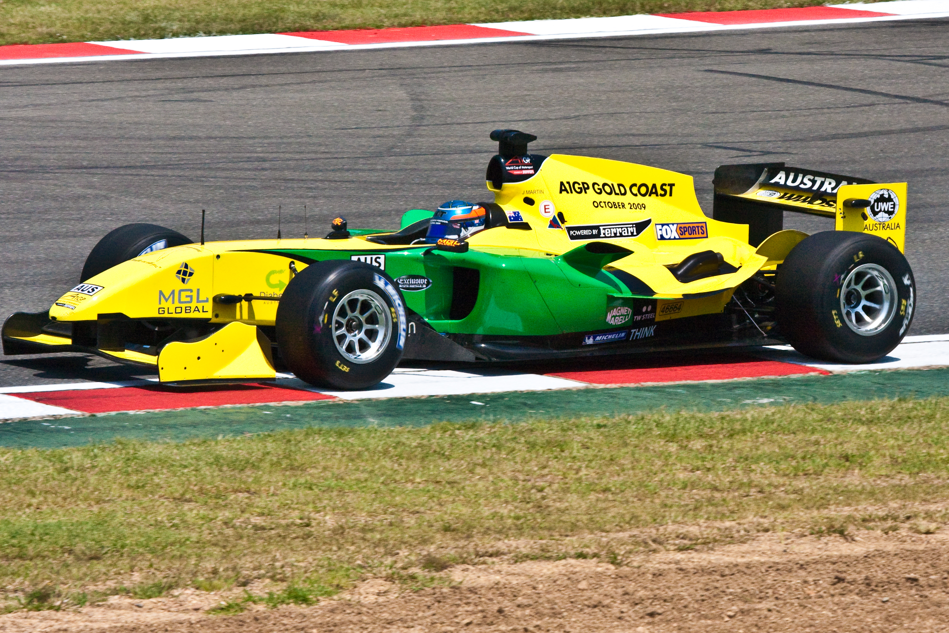 Team Australia @ A1 Grand Prix Kyalami South Africa 2009